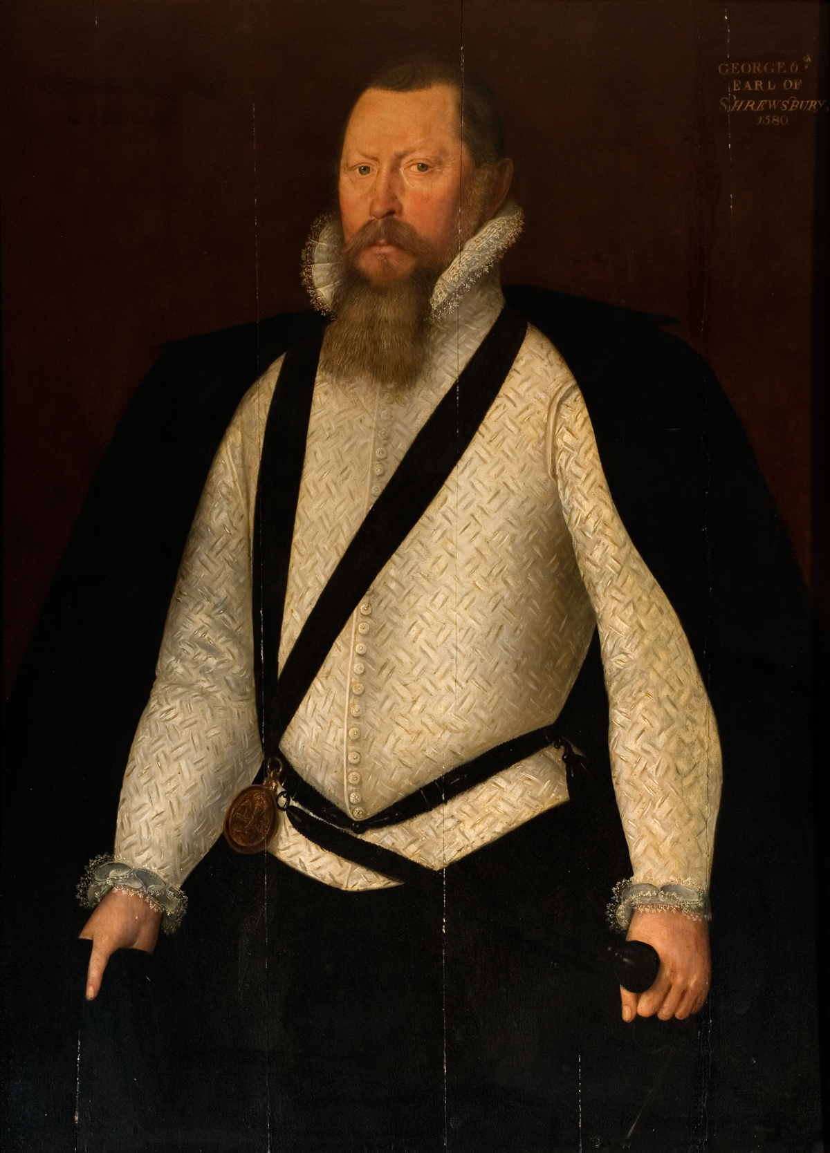 Portrait of George Talbot, 6th Earl of Shrewsbury, by an unknown artist of the English school. Dated 1580. Oil on canvas, 110 cm x 90 cm. Courtesy of the collections of Ingestre Hall Residential Arts Centre.